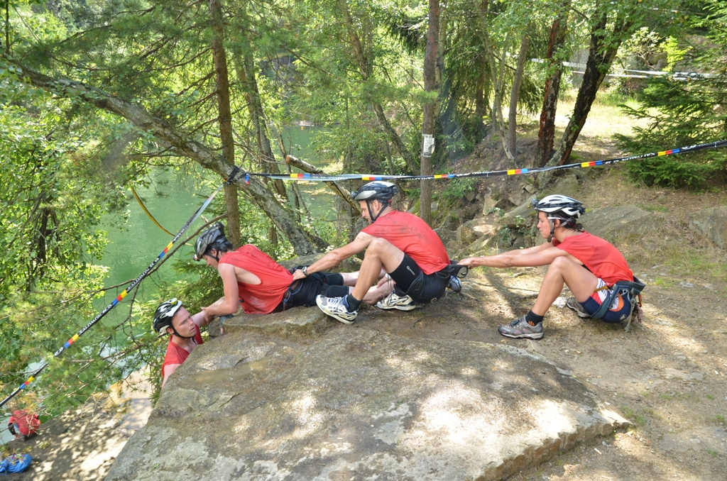 Dutch team passing Bolscross - special discipline at Wenger Czech Adventure Race.